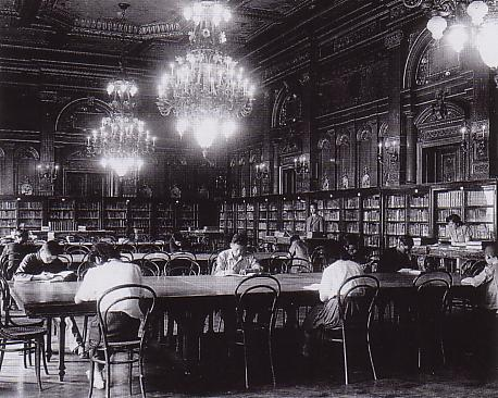 The National Diet Library that exist in the present-day State Guest-House (former Akasaka Detached Palace)